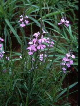 Striga hermonthica (purple witchweed), a parasitic plant affecting pearl millet, rice, sorghum, and other crops